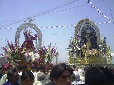 encuentro del señor de los milagro con la imagen del señor de la ascension de amay